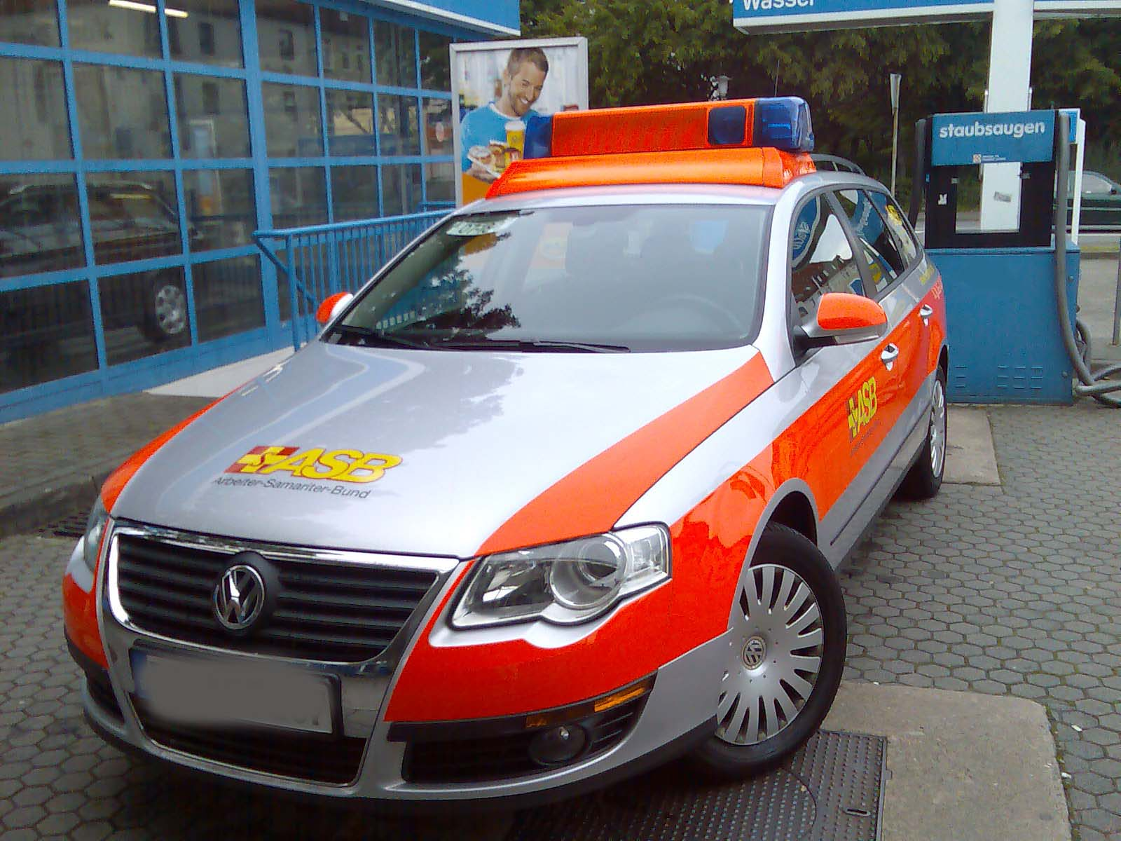 Photograph of VW Passat used by the ASB for MTD